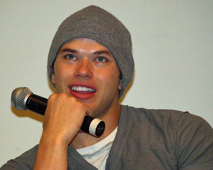 Kellan Lutz at a Twilight convention.